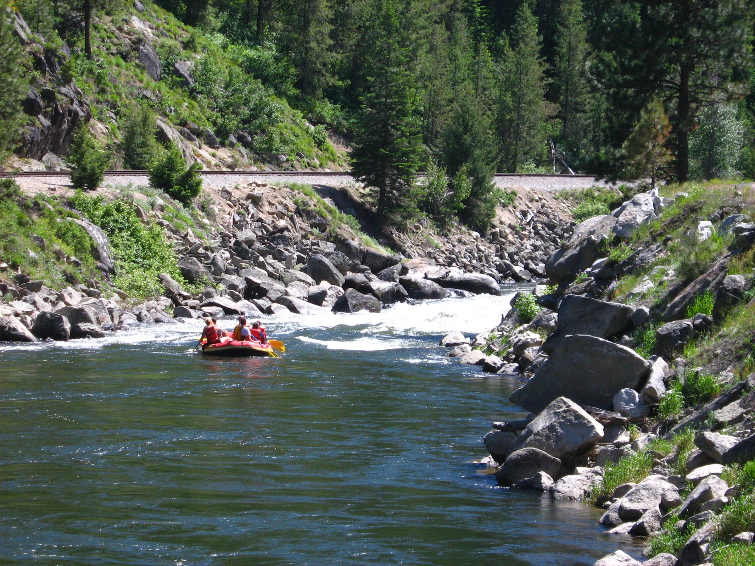 Rafters on the North Fork Cabarton section of the Payette River, near Smiths Ferry, Idaho